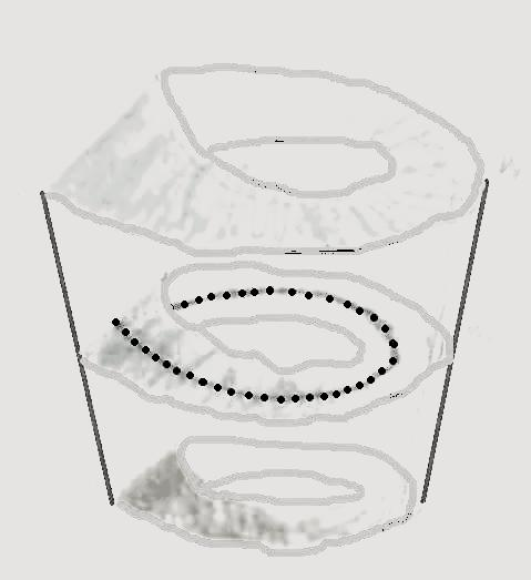 to be used on 3d mflds in images: it is M o ¨ × I {\displaystyle \scriptstyle M{\ddot {o \times I} so its boundary ∂ ( M o ¨ × I ) = M o ¨ × { 0 } ∪ ( ∂ M o ¨ ) × I ∪ M o ¨ × { 1 } {\displaystyle \scriptstyle \partial (M{\ddot {o \times I)=M{\ddot {o \times \{0\}\cup (\partial M{\ddot {o )\times I\cup M{\ddot {o \times \{1\ is the classical surface Klein bottle